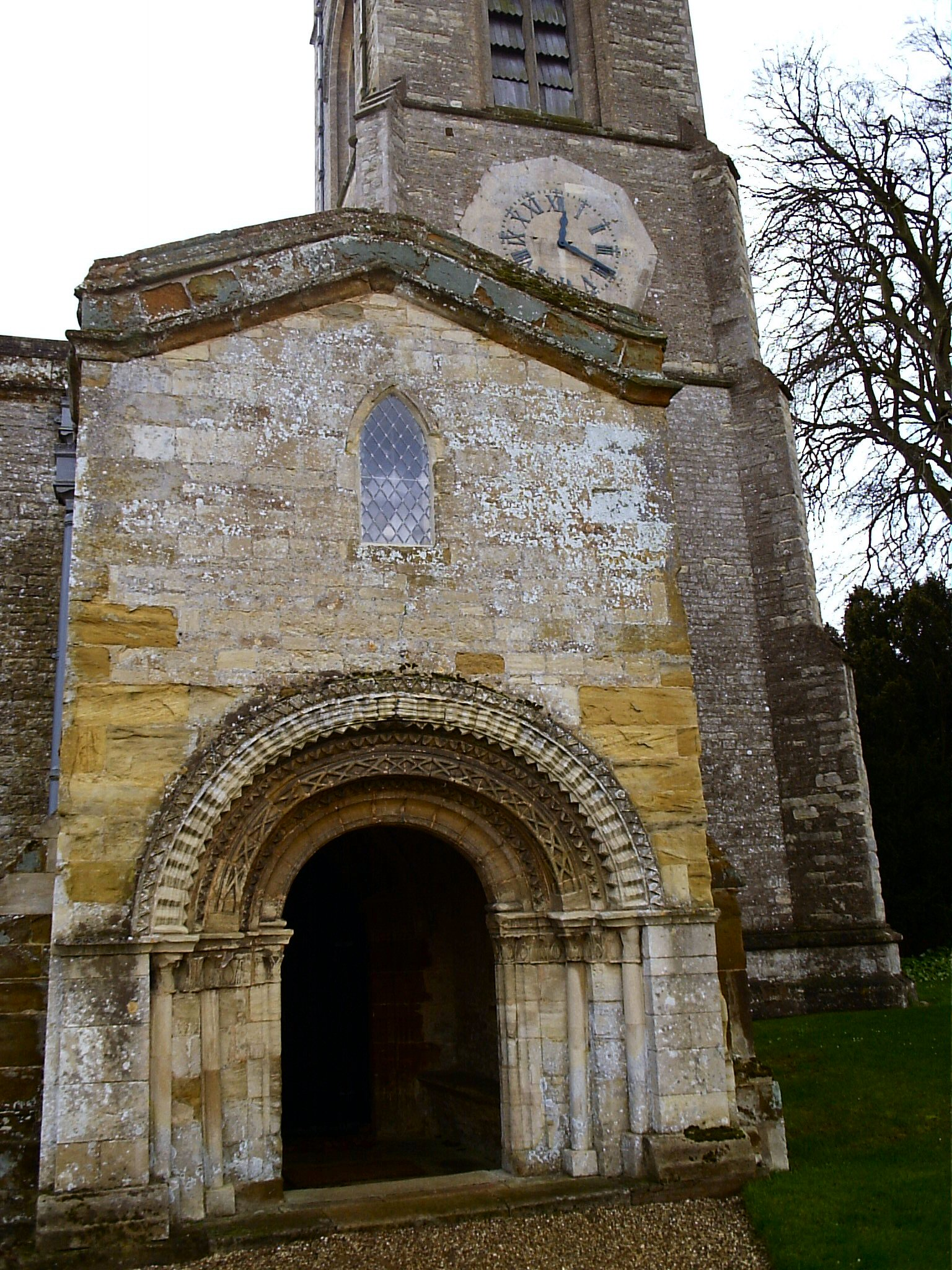 Porch of St Mary Magdalene parish church, Castle Ashby, Northamptonshire: the arch is late Norman, and there is a room over the porch